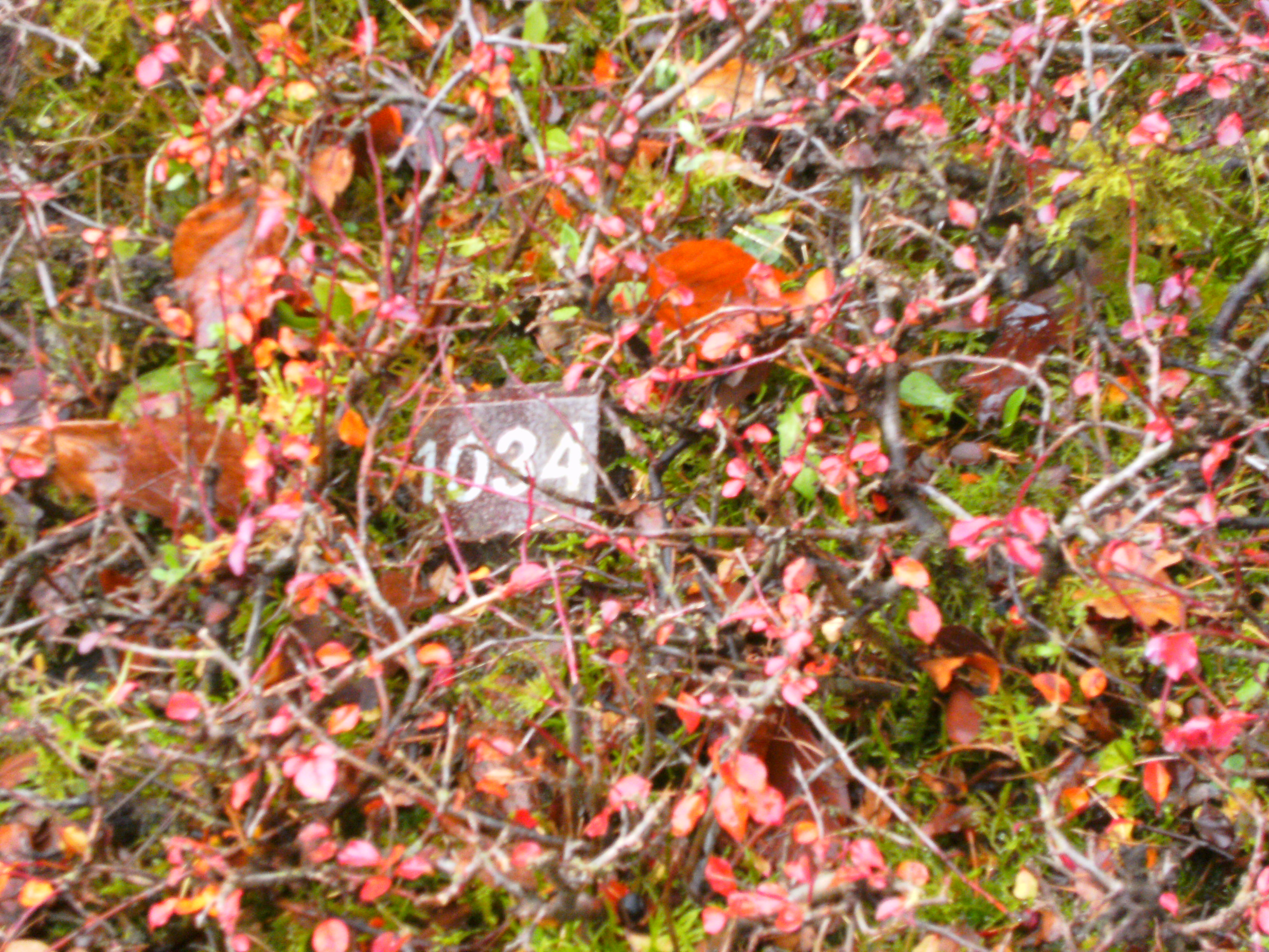 Grave number 1034 on Cap Arcona cemetery Scharbeutz-Haffkrug (Ehrenfriedhof Cap Arcona in Scharbeutz-Haffkrug).